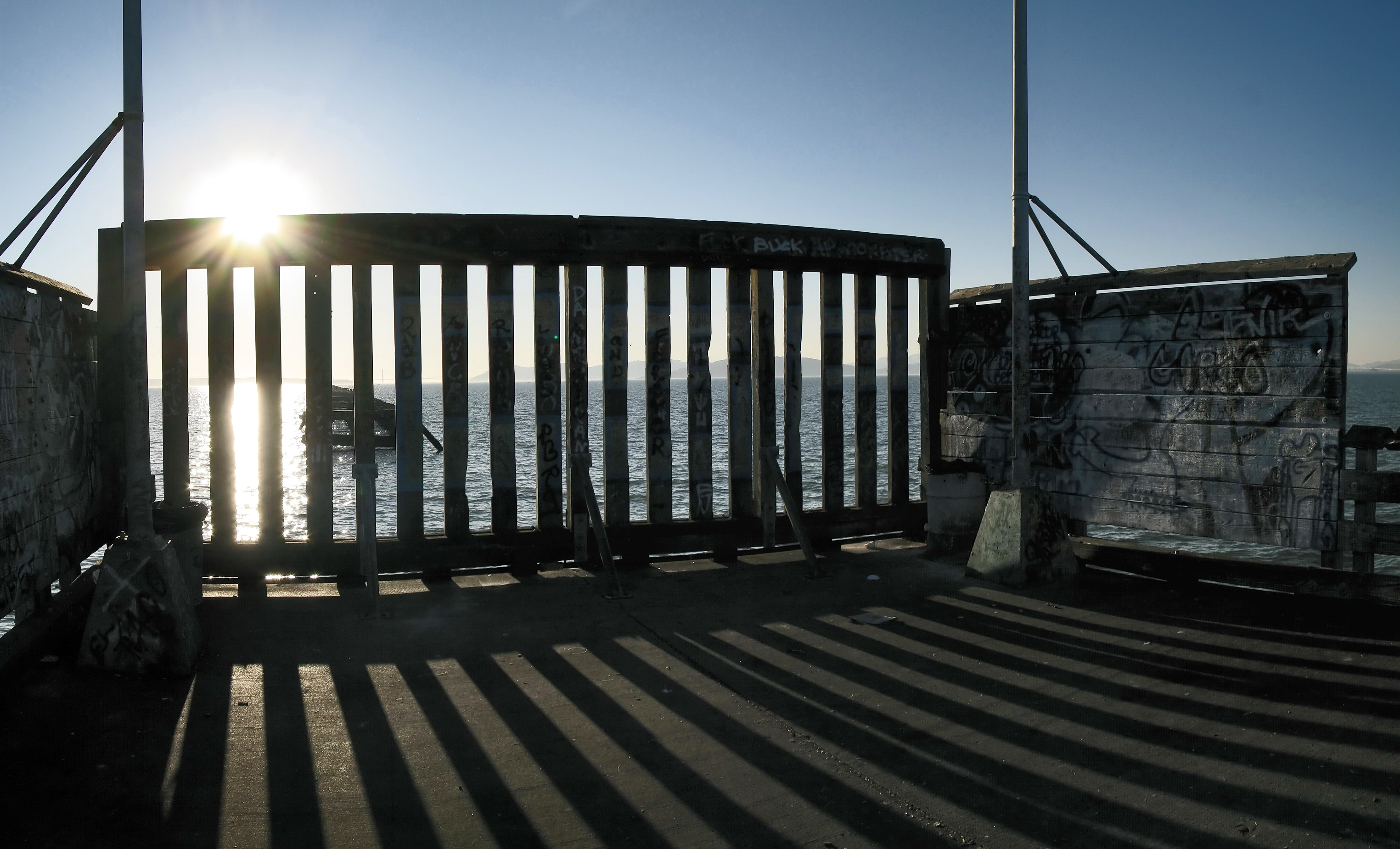 The wooden barrier at the end of the Berkeley Pier. Graffiti is prevalent here likely due to its distance from the shoreline which provides cover for vandalism. Visible through the barrier is the decaying abandoned portion of the old pier that extends 4 km into San Francisco Bay. Photo on November 2007.